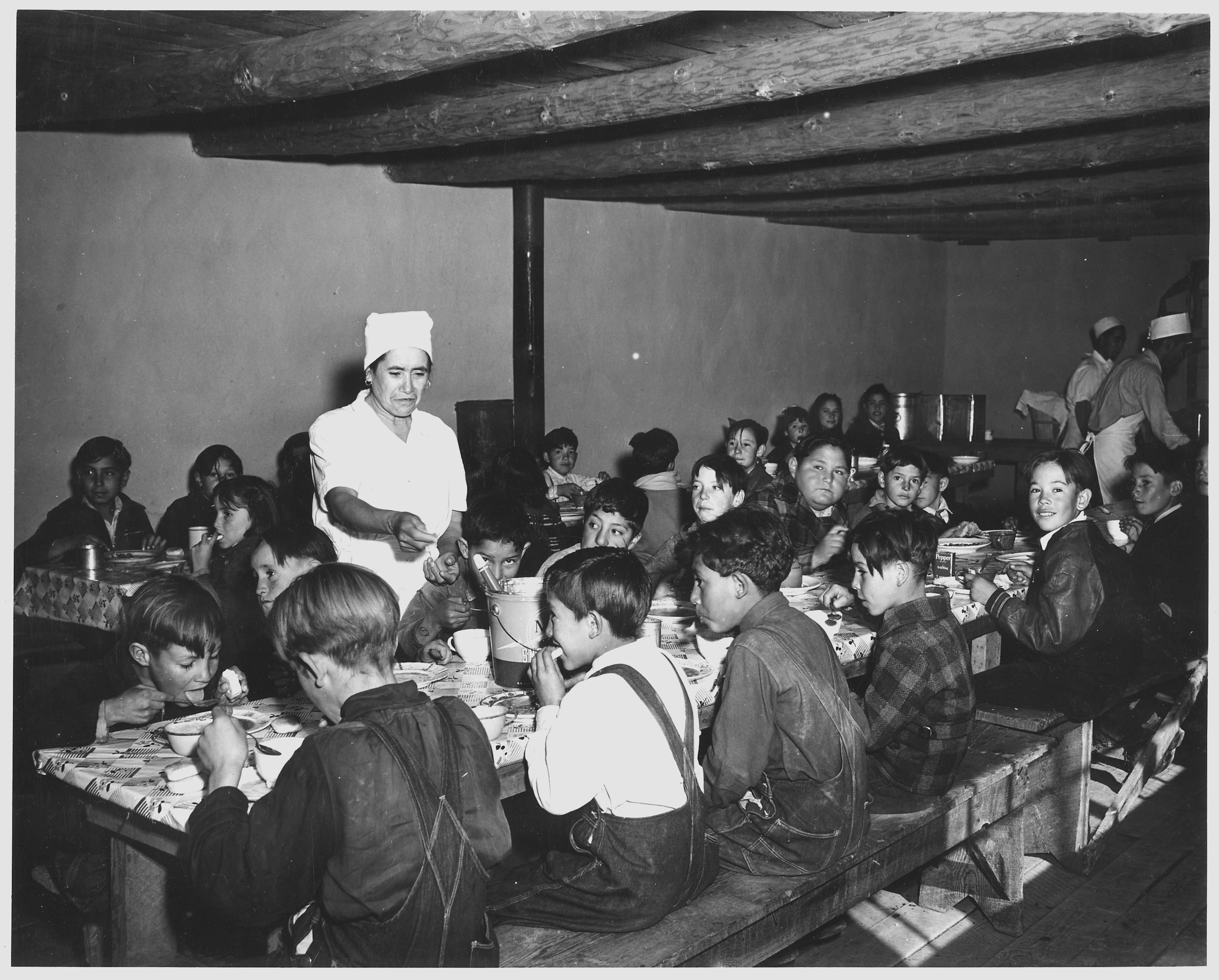 Scope and content: Full caption reads as follows: Taos County, New Mexico. The hot lunch, school at Penasco. Children pay about 1 cent daily for this hot meal made up primarily of food from the Surplus Commodities Program, and prepared by WPA-paid cooks.